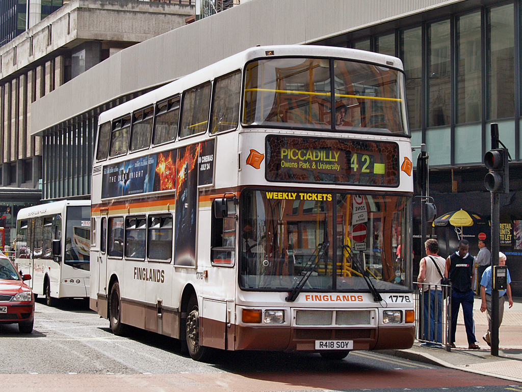 Finglands Coachways Limited 1778 (R418 SOY), a 1997 built H47/29F Volvo Olympian OLY-50/Northern Counties Palatine II ex-Armchair, on Portland Street, Manchester at the junction with Parker Street on route 42 from East Didsbury (Parrs Wood) to Manchester Piccadilly Gardens via Wilmslow Road.